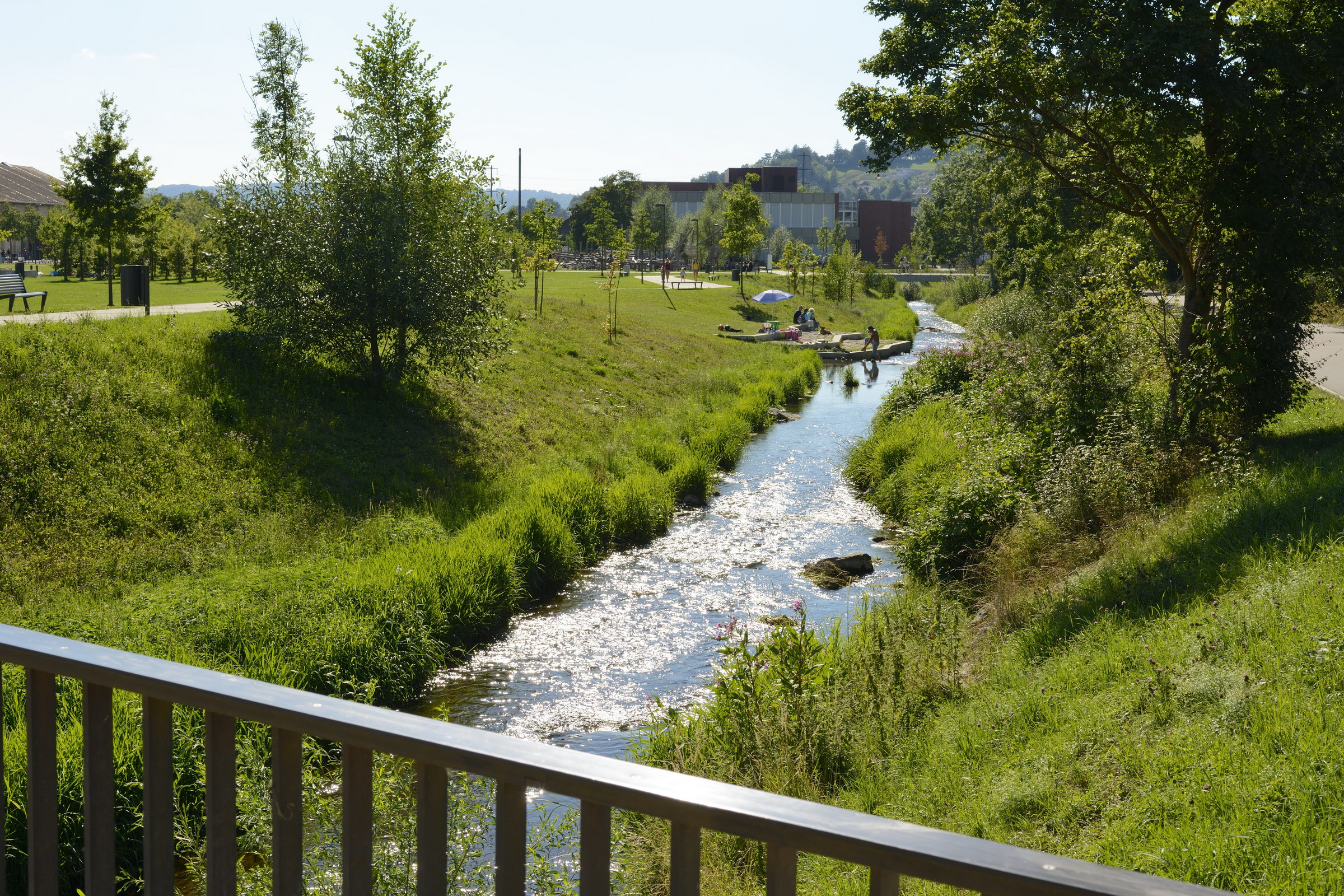 Eulachpark Winterthur